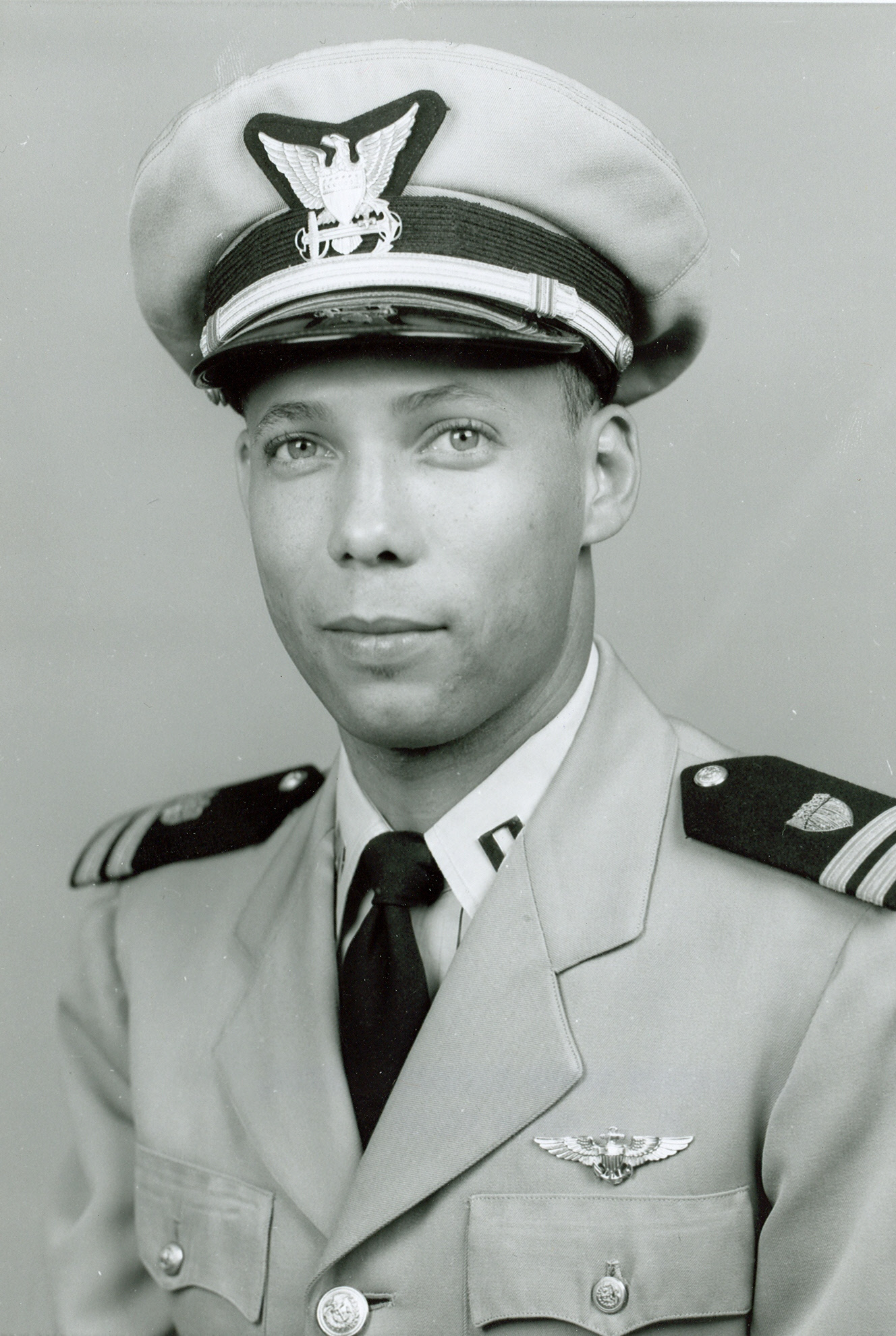 Lieutenant Bobby Charles Wilks, United States Coast Guard. He was the highest ranking African-American in the Coast Guard, became an Aviator less than two years after he entered the Coast Guard Reserve in 1955. He transferred to the regular Coast Guard in 1960. He has carried out many rescue flights from various Coast Guard Air Stations during his military career. Date uncertain, probably 1960. This is a retouched picture, which means that it has been digitally altered from its original version. Modifications: cropped white space.